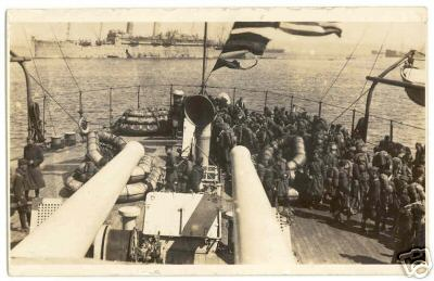 Postcard: USS Connecticut BB-18 "Vintage World War One standard size (3 1/2 x 5 1/2) black & white real photo postcard. Unused [...] AZO stamp box with 2 arrows up and 2 down. US Troops being loaded for return to USA. BB-18 had Troop Transport duty between Jan 6, 1919-June 22, 1919, to/from Brest France. Ships name visible on life ring." Source: eBay auction Web page Category:USS Connecticut (BB-18)